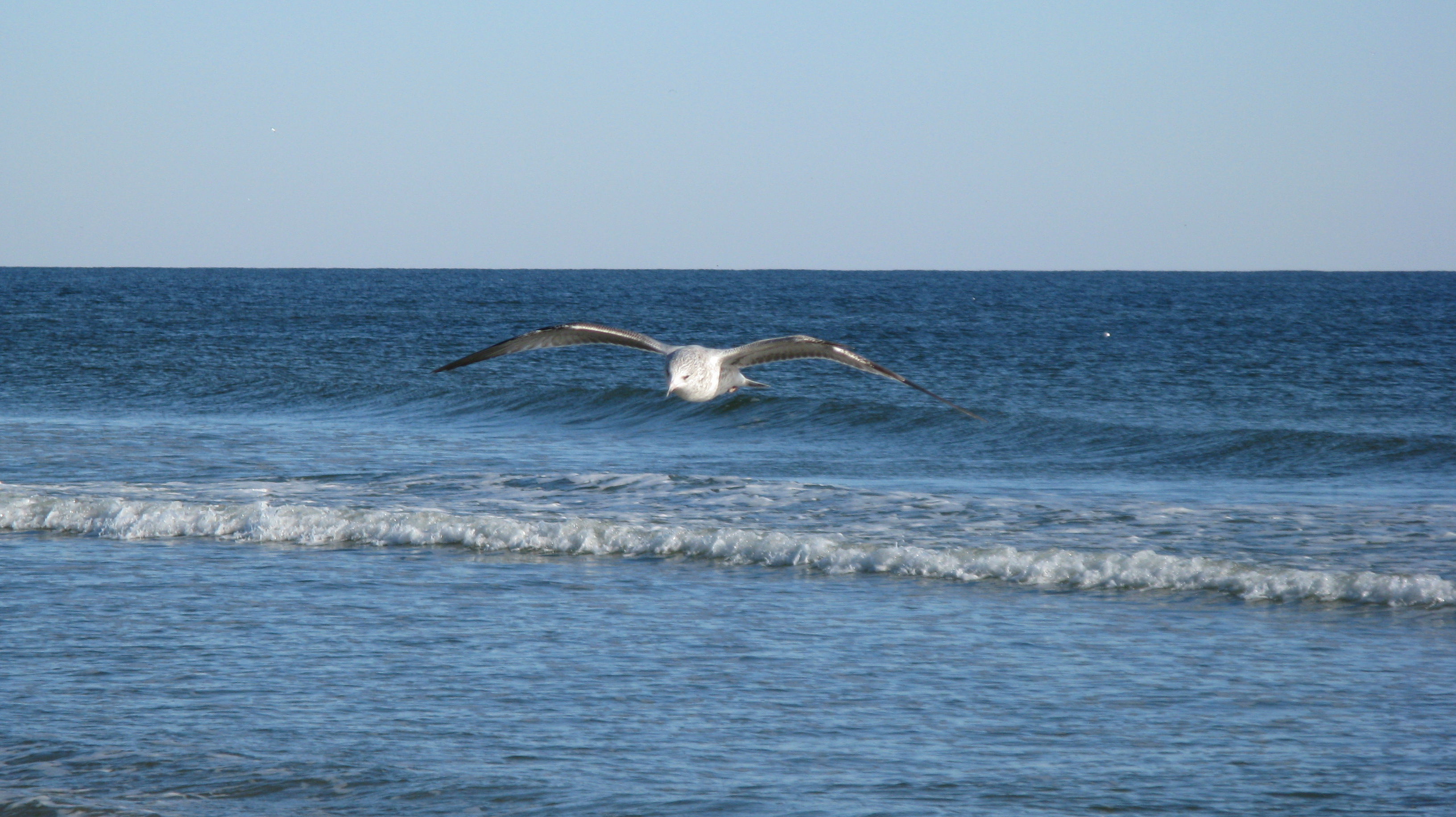 A seagull in the foreground appearing as if gliding on an ocean wave in the background. Taken at Sunset Beach, NC, USA, just after Thanksgiving 2009.